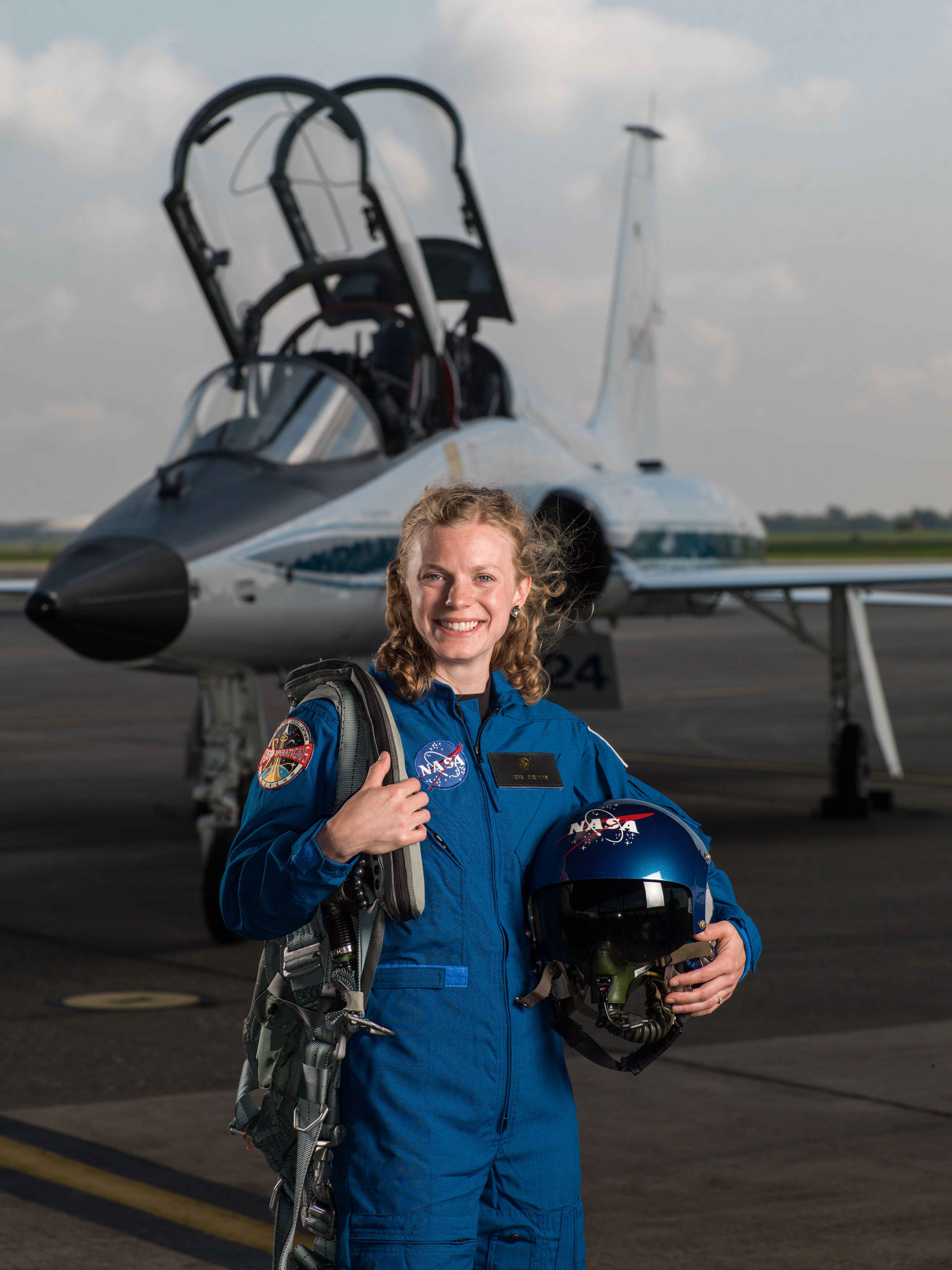 2017 NASA astronaut candidate Zena Cardman. Photo date: June 6, 2017. Location: Ellington Field, hangar 276, Tarmac.